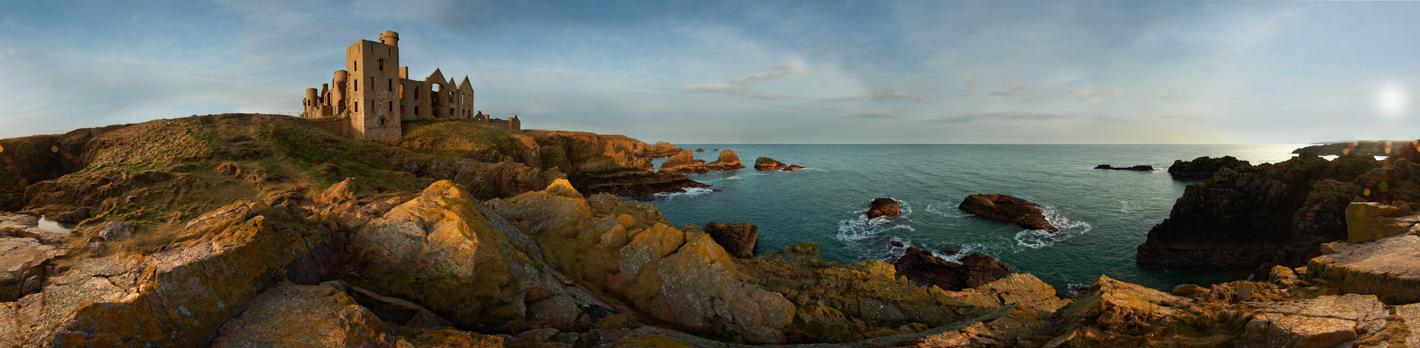 Slains-Castle-Scotland